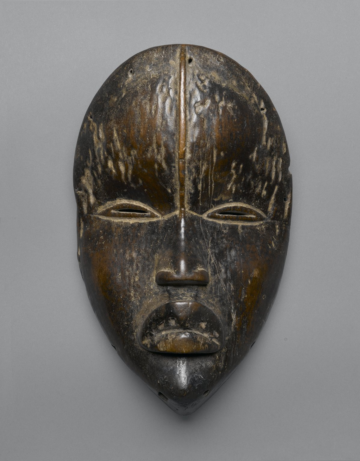 Oval shaped with full lips that are arched, delicate nose with slightly flared nostrils, and coffee bean shaped slit eyes. Forehead is rounded and has a median ridge. Eyes are rimmed in thin line of white pigment that extends to bridge of nose. The rim of the mask is pierced for attachments. The entire surface has a deep rich brown glossy patina. The entire surface has a deep rich brown glossy patina. Condition: Very good. Surface erosion, particularly on forehead area and on rim as a result of wear and use. There are 4 small openings in upper lip where metal teeth (no longer present) were inserted; the fifth opening on right still has the tooth.